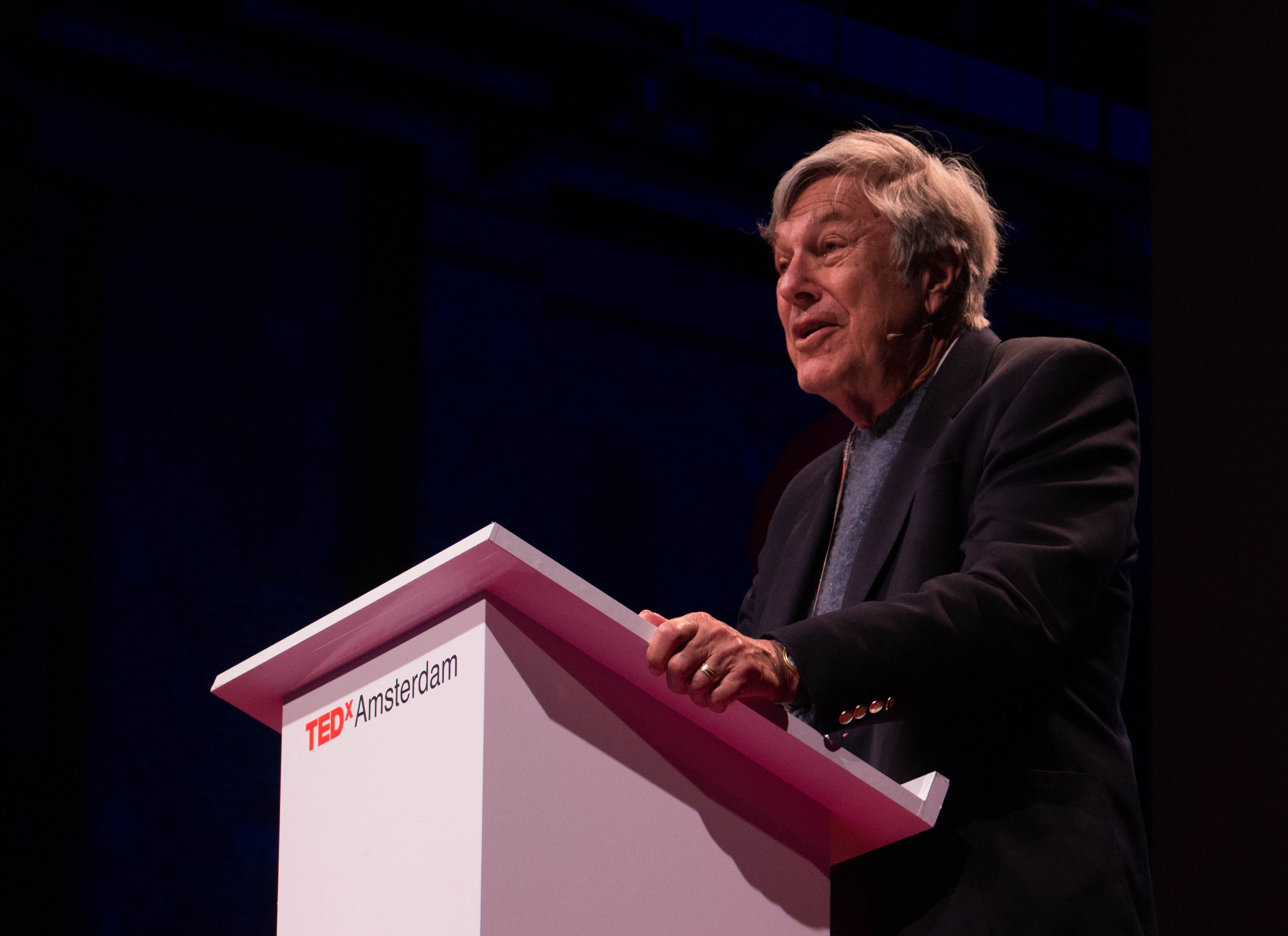 George Vaillant giving a talk at TEDxAmsterdam 2014